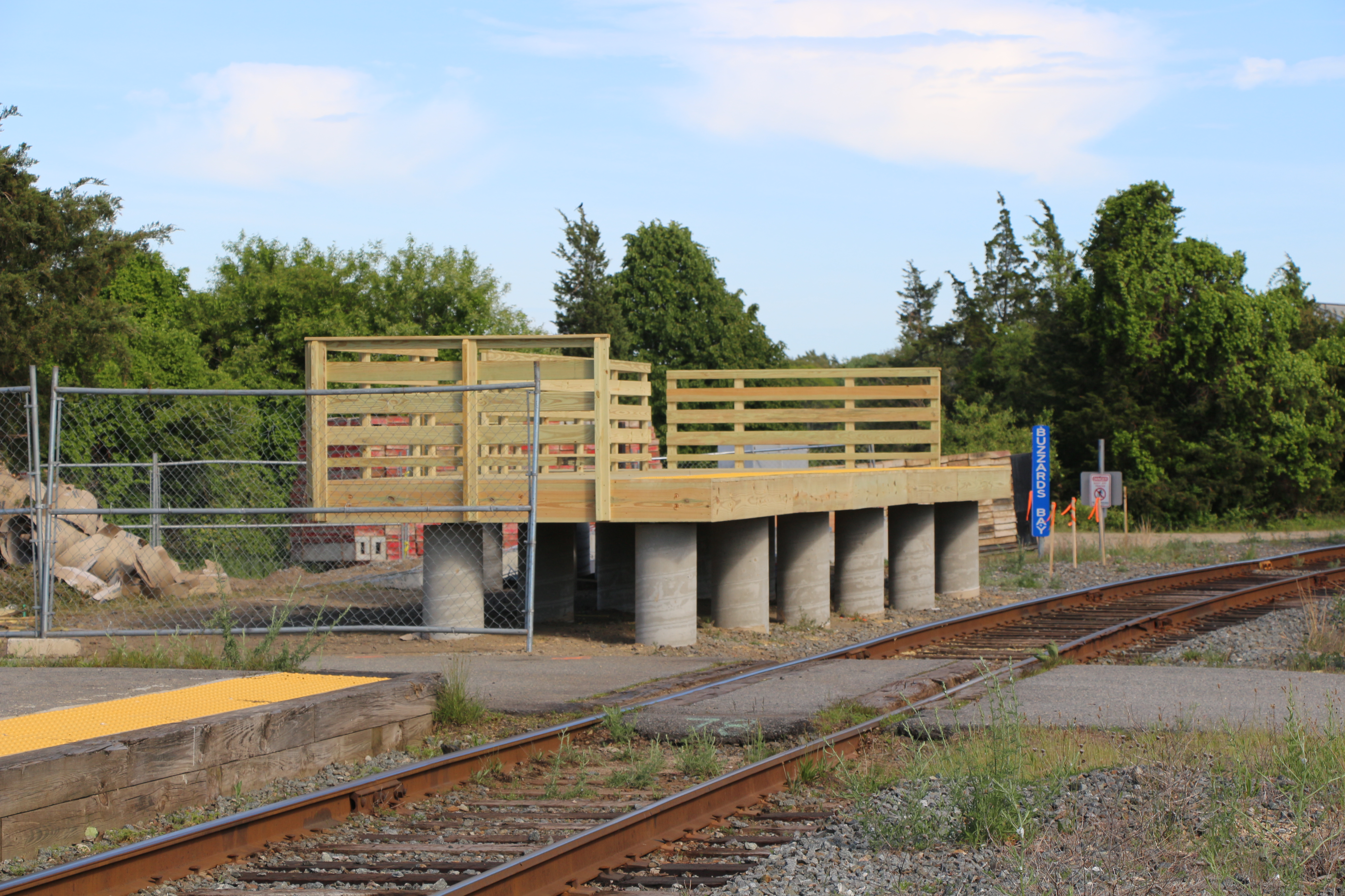 A second high-level platform under construction at Buzzards Bay in June 2014, in order to allow trains to clear the Academy Drive crossing while platformed